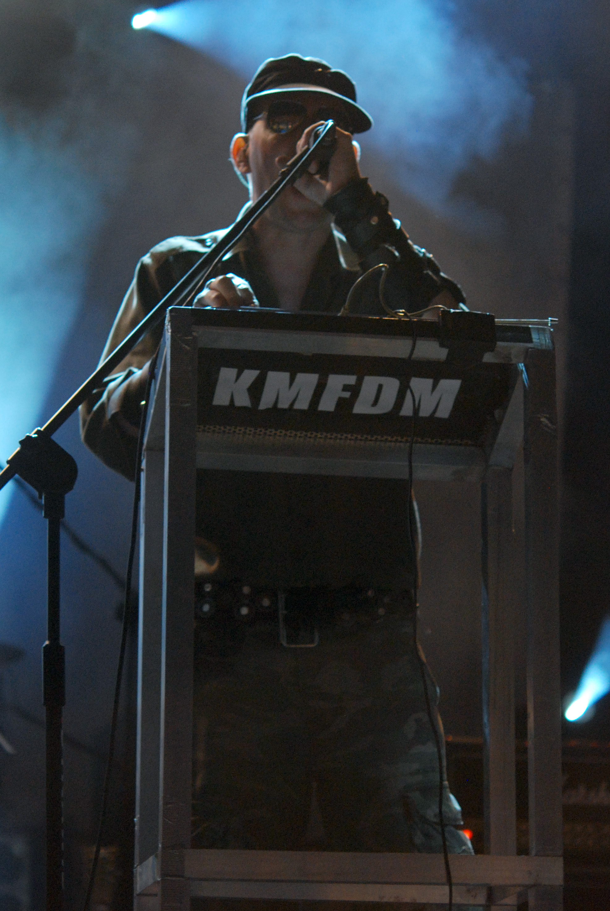 This photo was made in cooperation with CASTLE PARTY PRODUCTIONS in Bolków (webpage)